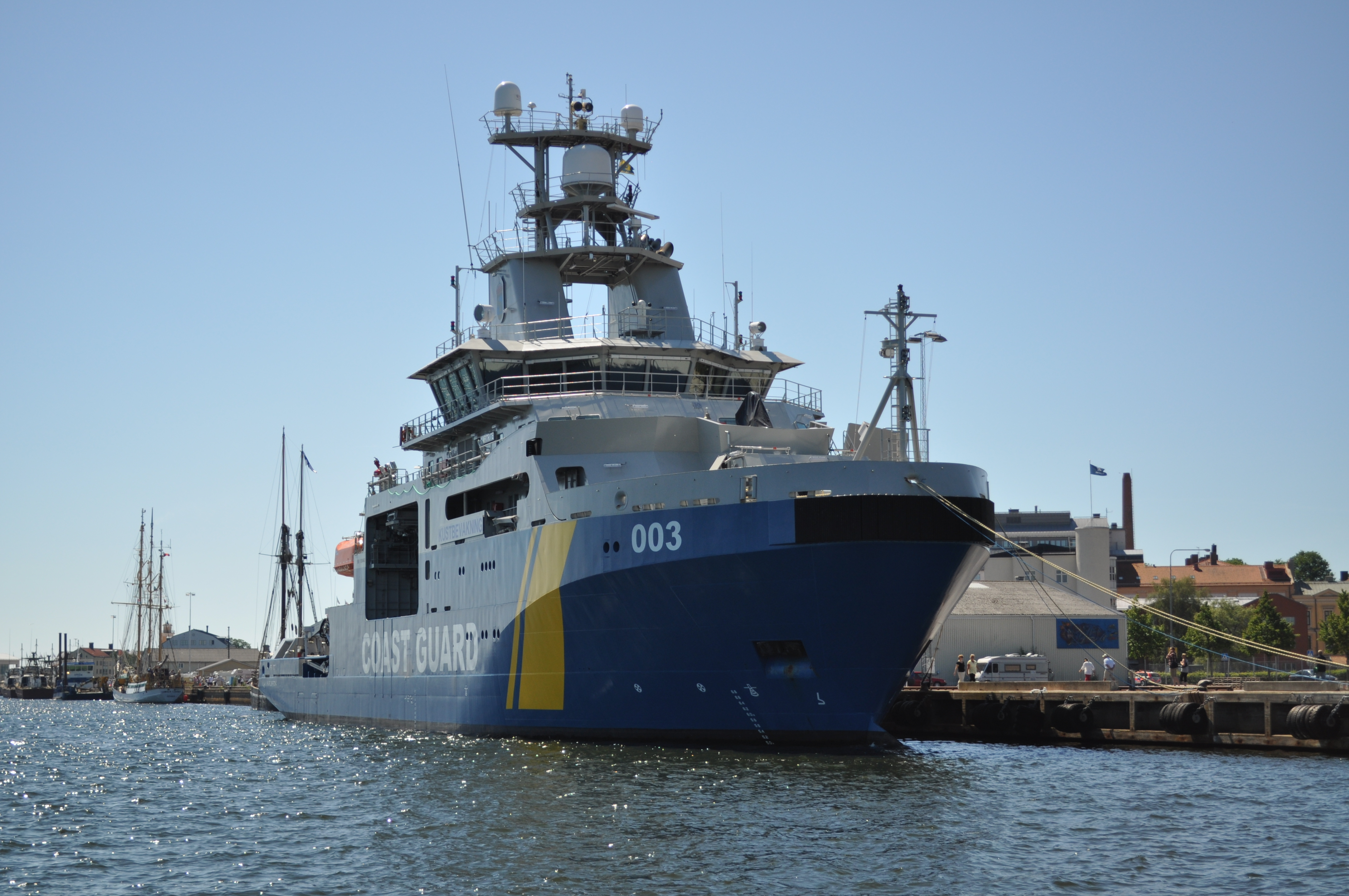 Swedish coastguard KBV 003 Amfitrite - Karlskrona